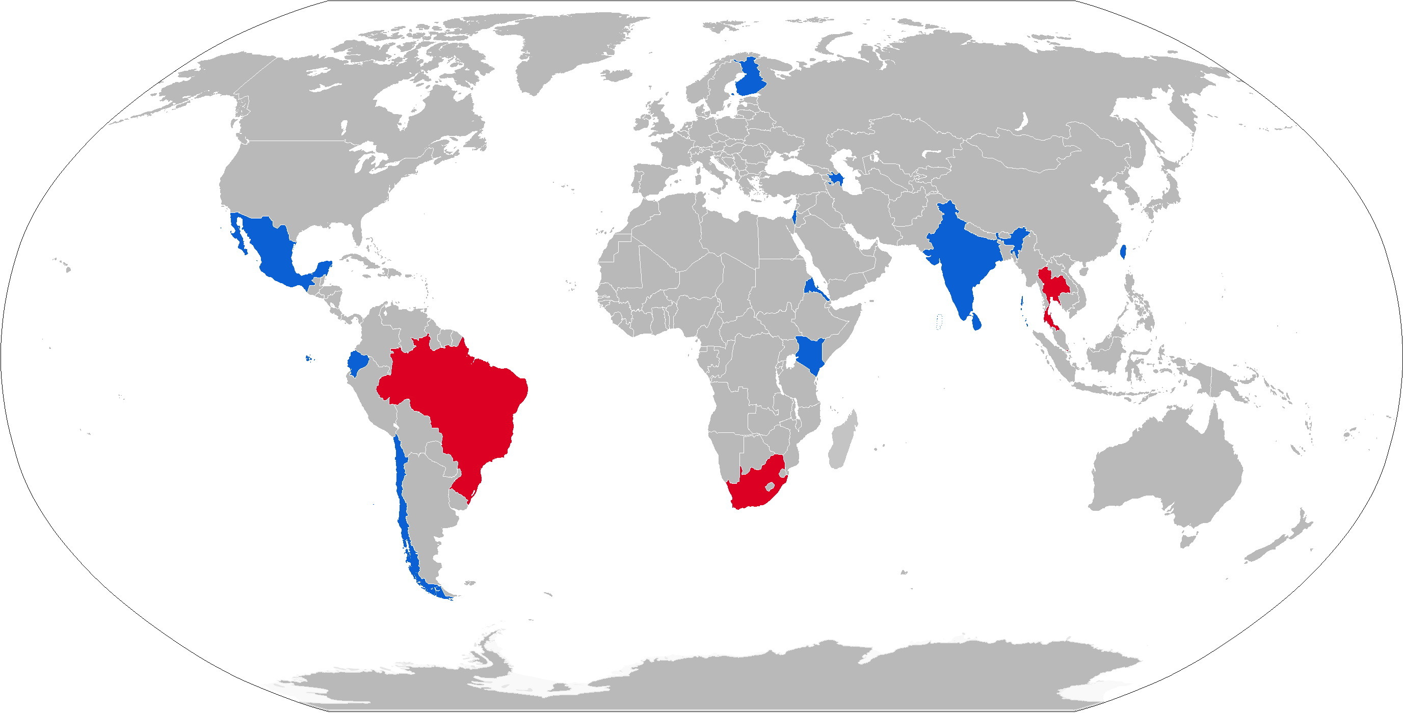 Map with Gabriel operators in blue with former operators in red